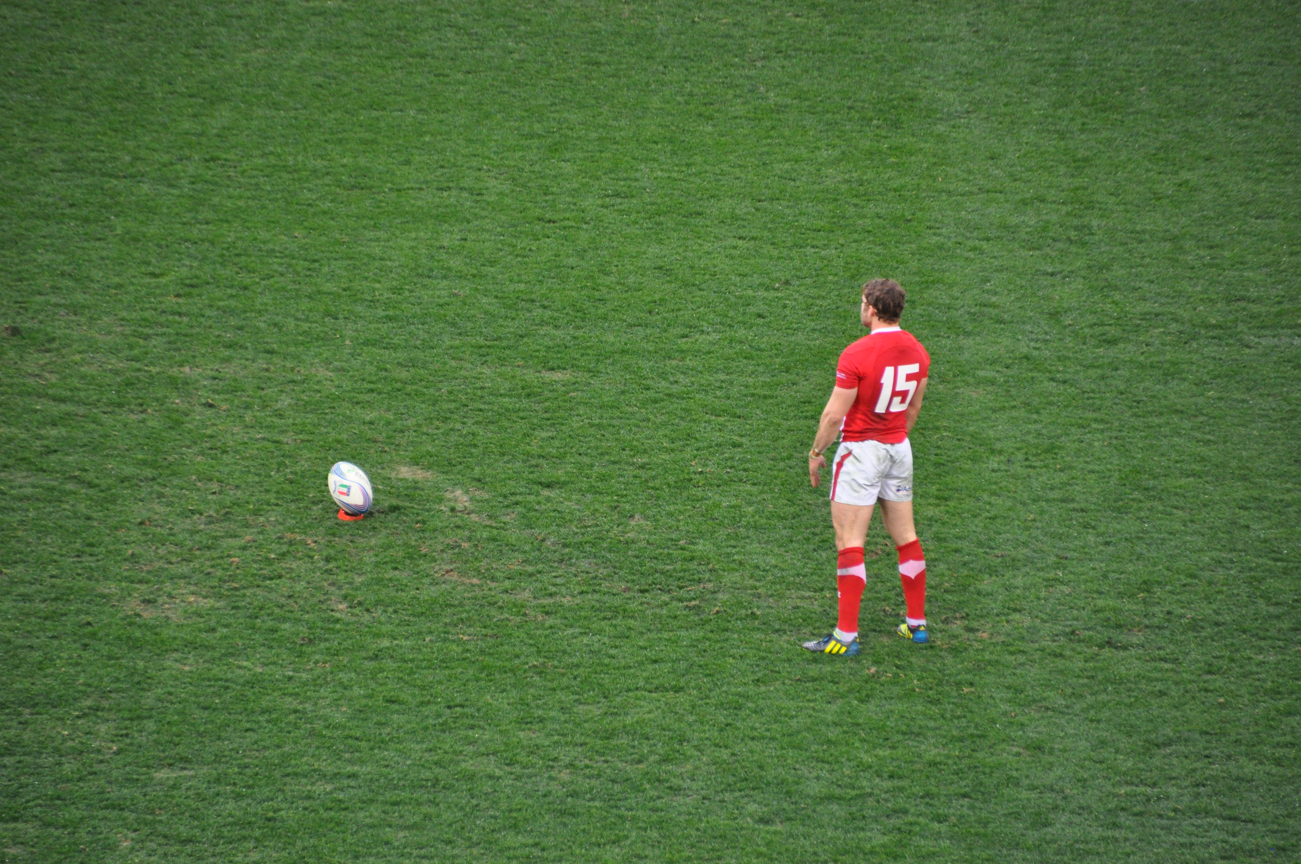 2013 Six Nations Italy vs Wales